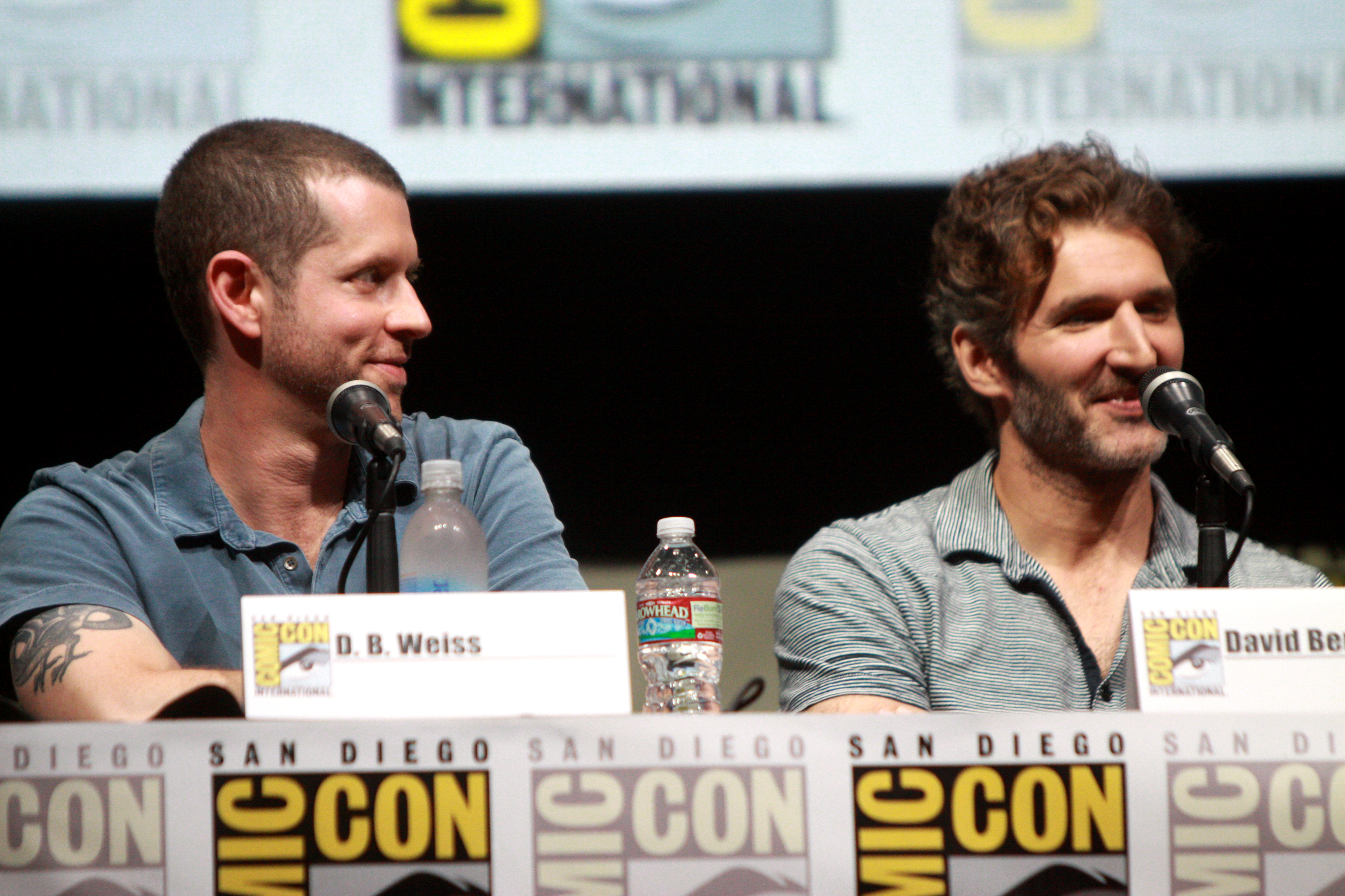 D. B. Weiss and David Benioff speaking at the 2013 San Diego Comic Con International, for "Game of Thrones", at the San Diego Convention Center in San Diego, California.